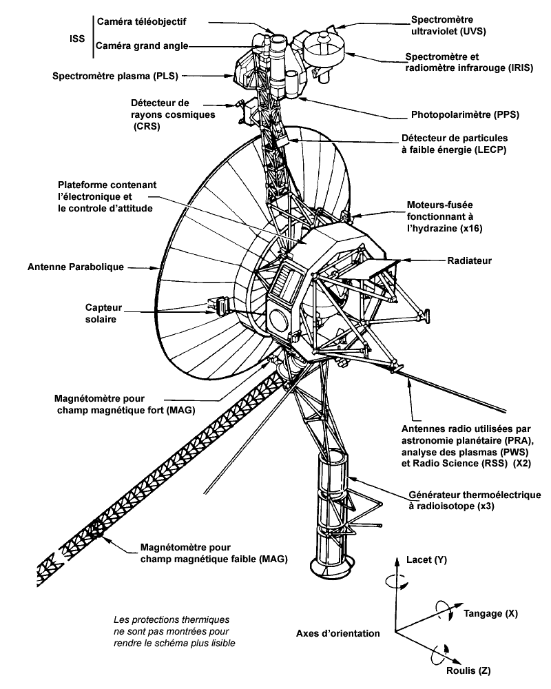 The Voyager spacecraft structure - schematic diagram. The 3.7 metre diameter high-gain antenna (HGA) is attached to the hollow ten-sided polygonal electronics bus, with the spherical tank within containing hydrazine propulsion fuel. The Voyager Golden Record is attached to one of the bus sides. The angled square panel to the right is the optical calibration target and excess heat radiator. The three radioisotope thermoelectric generators (RTGs) are mounted end-to-end on the lower boom. The two planetary radio and plasma wave antenna extend diagonally downwards left and right. The 13 metre long Astromast tri-axial boom extends diagonally downwards left and holds the two low-field magnetometers (MAG); the high-field magnetometers remain close to the HGA. The instrument boom extending upwards holds, from bottom to top: the cosmic ray susbsystem (CRS) left, and Low-Energy Charged Particle (LECP) detector right; the Plasma Spectrometer (PLS) right; and the scan platform that rotates about a vertical axis. The scan platform comprises: the Infrared Interferometer Spectrometer (IRIS) (largest camera at top right); the Ultraviolet Spectrometer (UVS) just above the UVS; the two Imaging Science Subsystem (ISS) vidicon cameras to the left of the UVS; and the Photopolarimeter System (PPS) under the ISS. Suggested for English Wikipedia:alternative text for images: A space probe with squat cylindrical body and a large parabolic radio antenna dish pointing left, a three-element radioisotope thermoelectric generator on a boom extending down, and scientific instruments on a boom extending up. A disk is fixed to the body facing front left. A long tri-axial boom extends down left and two radio antenna extend down left and down right.